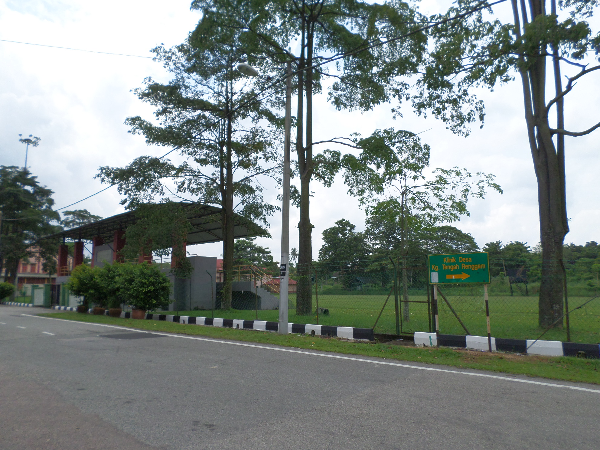 Renggam Town Mini Stadium, Renggam, Kluang, Johor, Malaysia